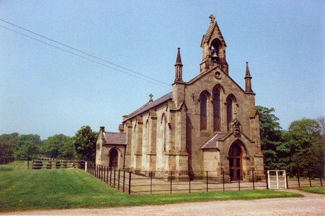 Parish church of St John the Evangelist, Doddington, Cheshire, seen from the south